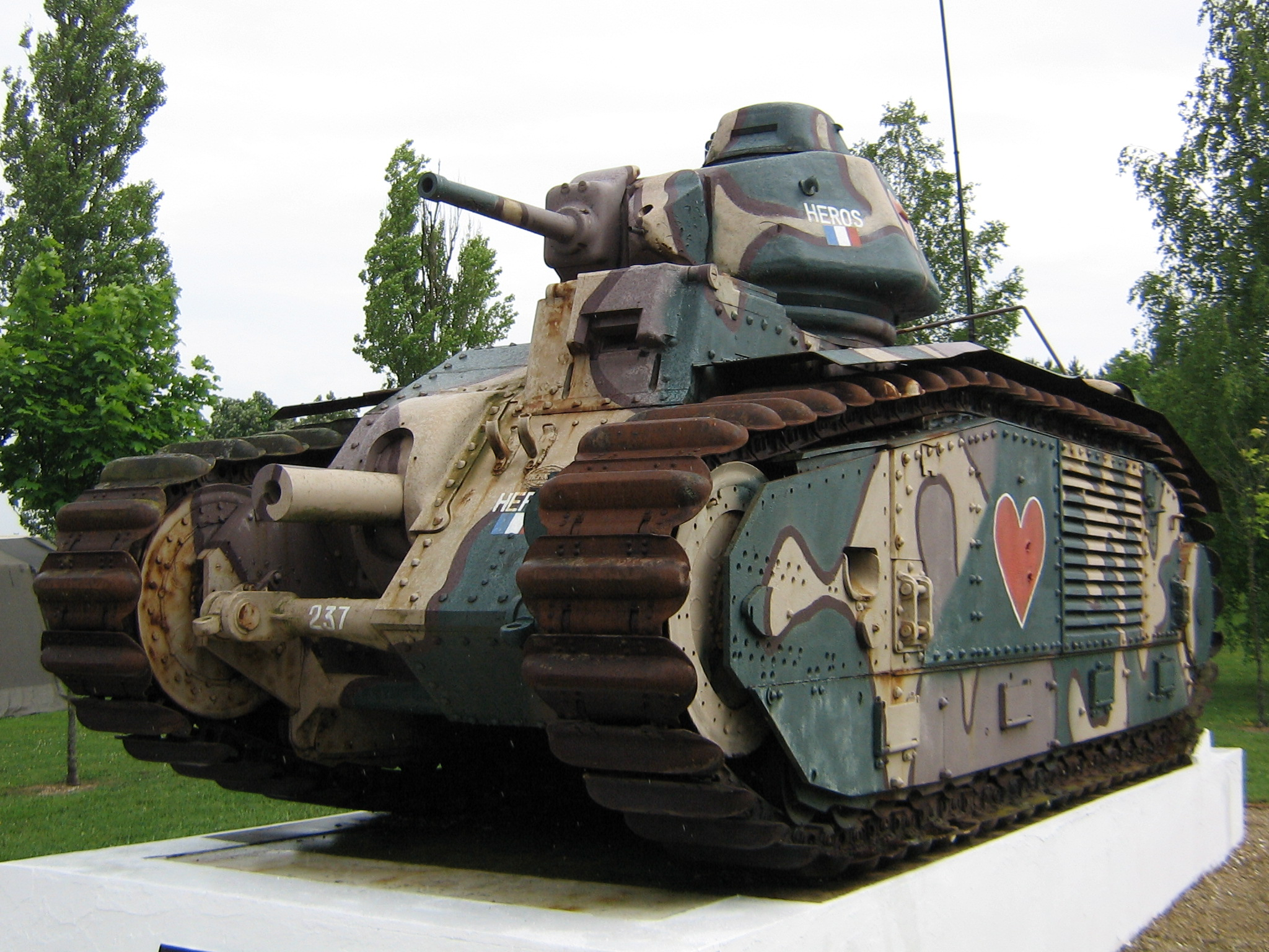 B1 bis named "Heros" at the Mourmelon military camp